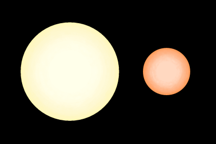 Comparision of our Sun (left) and nearby star Gliese 1 (right). data from